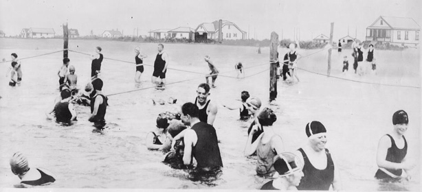 Old Beach